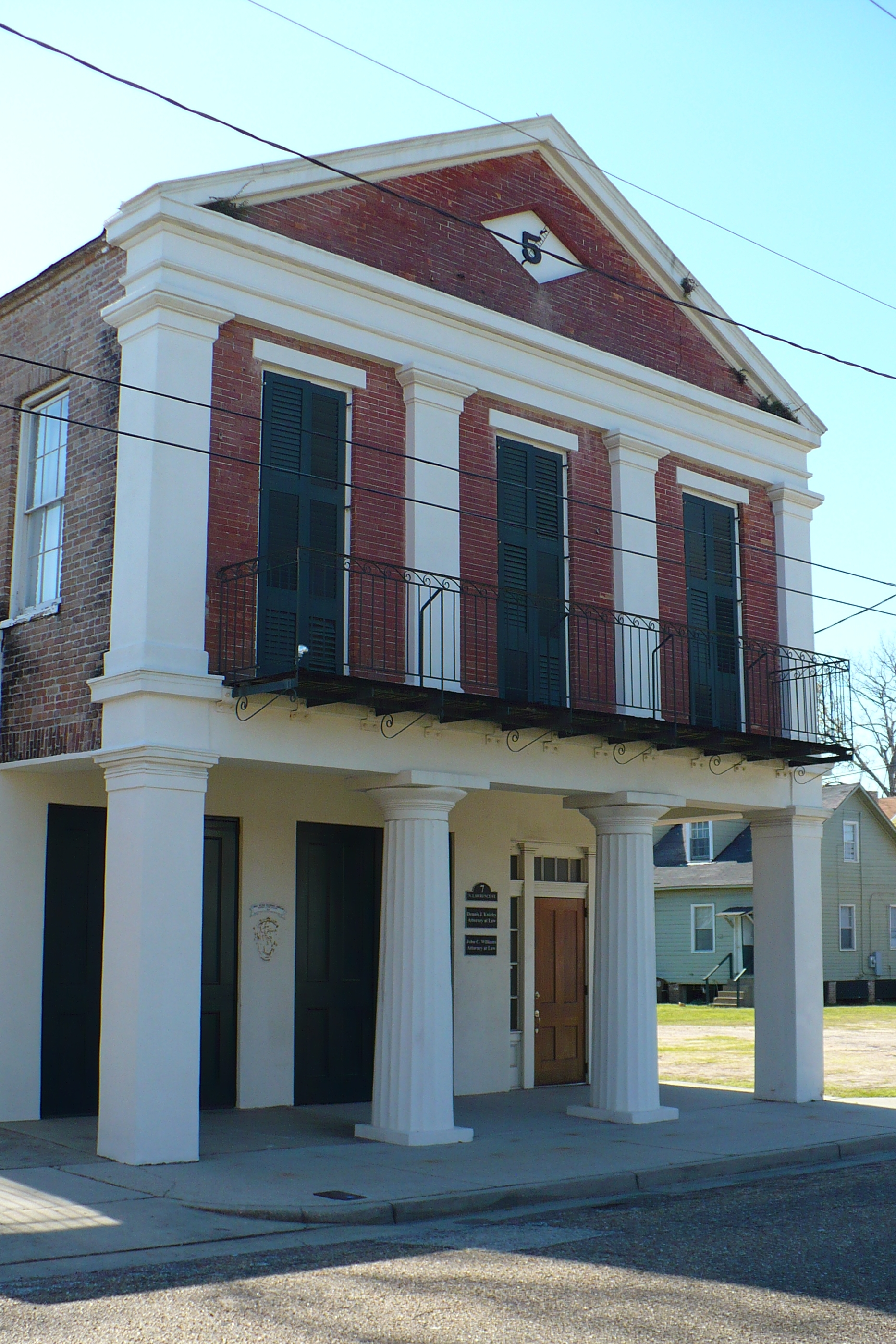 7 North Lawrence Street (Washington Firehouse No. 5) within the Lower Dauphin Street Historic District in Mobile, Alabama. (c. 1851).